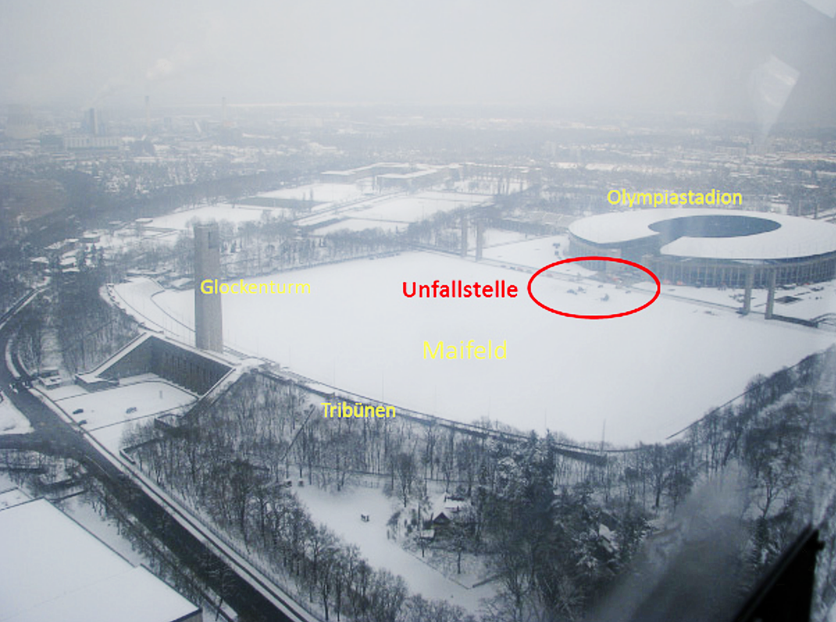 Aerial photograoh of the 2013 Berlin helicopter crash